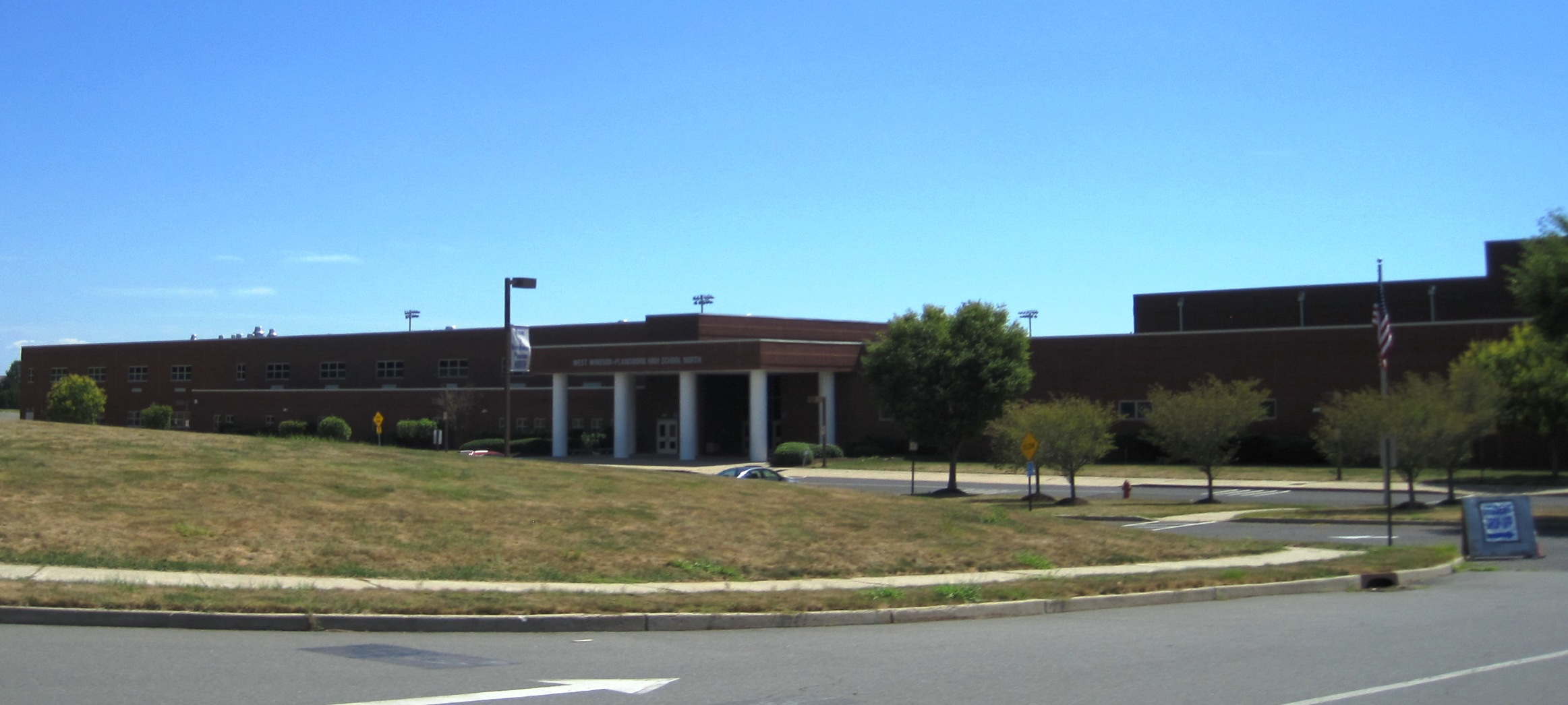 Photo of the front of West Windsor-Plainsboro High School North in Plainsboro Township, New Jersey.